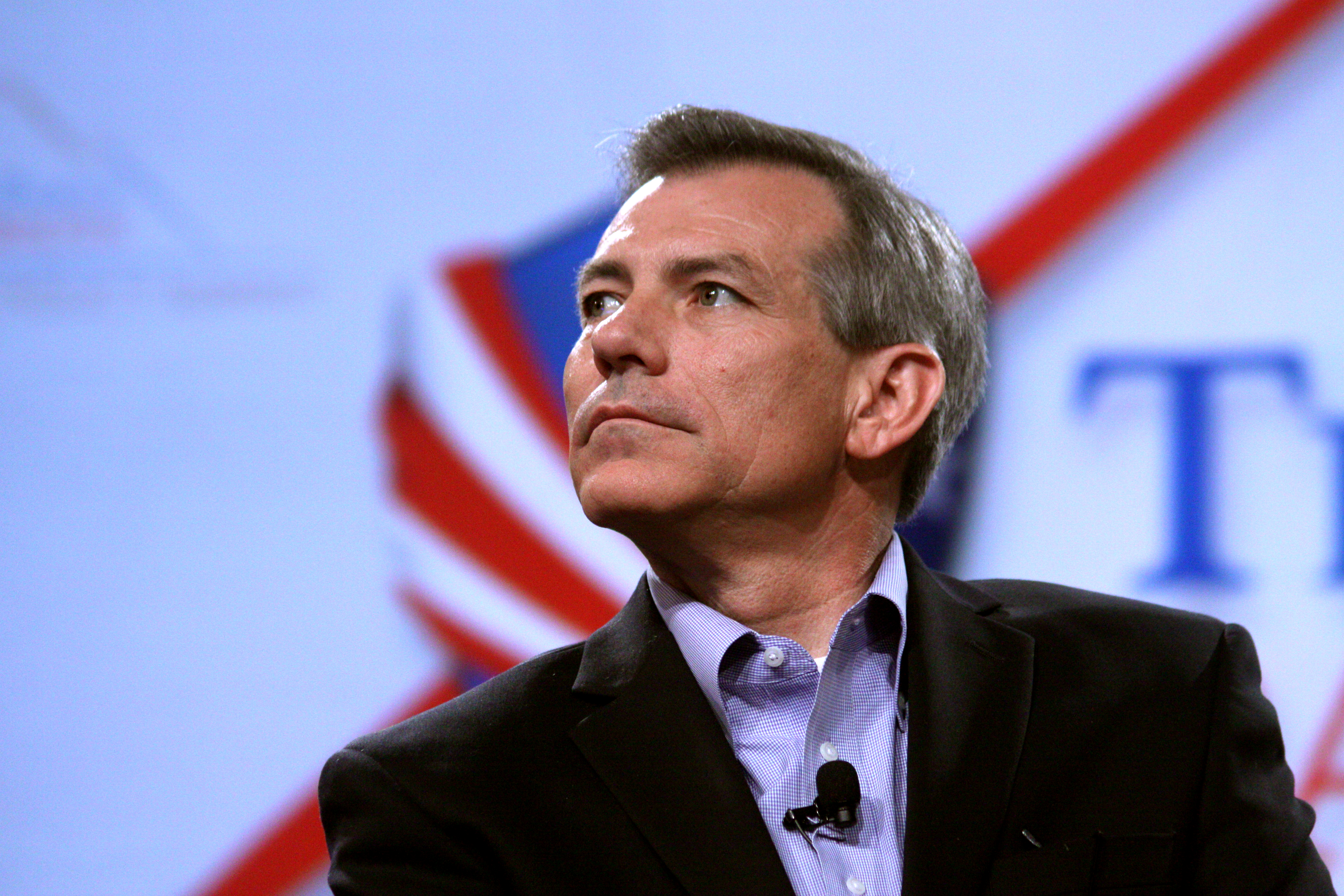 Congressman David Schweikert of Arizona speaking at the Tea Party Patriots American Policy Summit in Phoenix, Arizona.